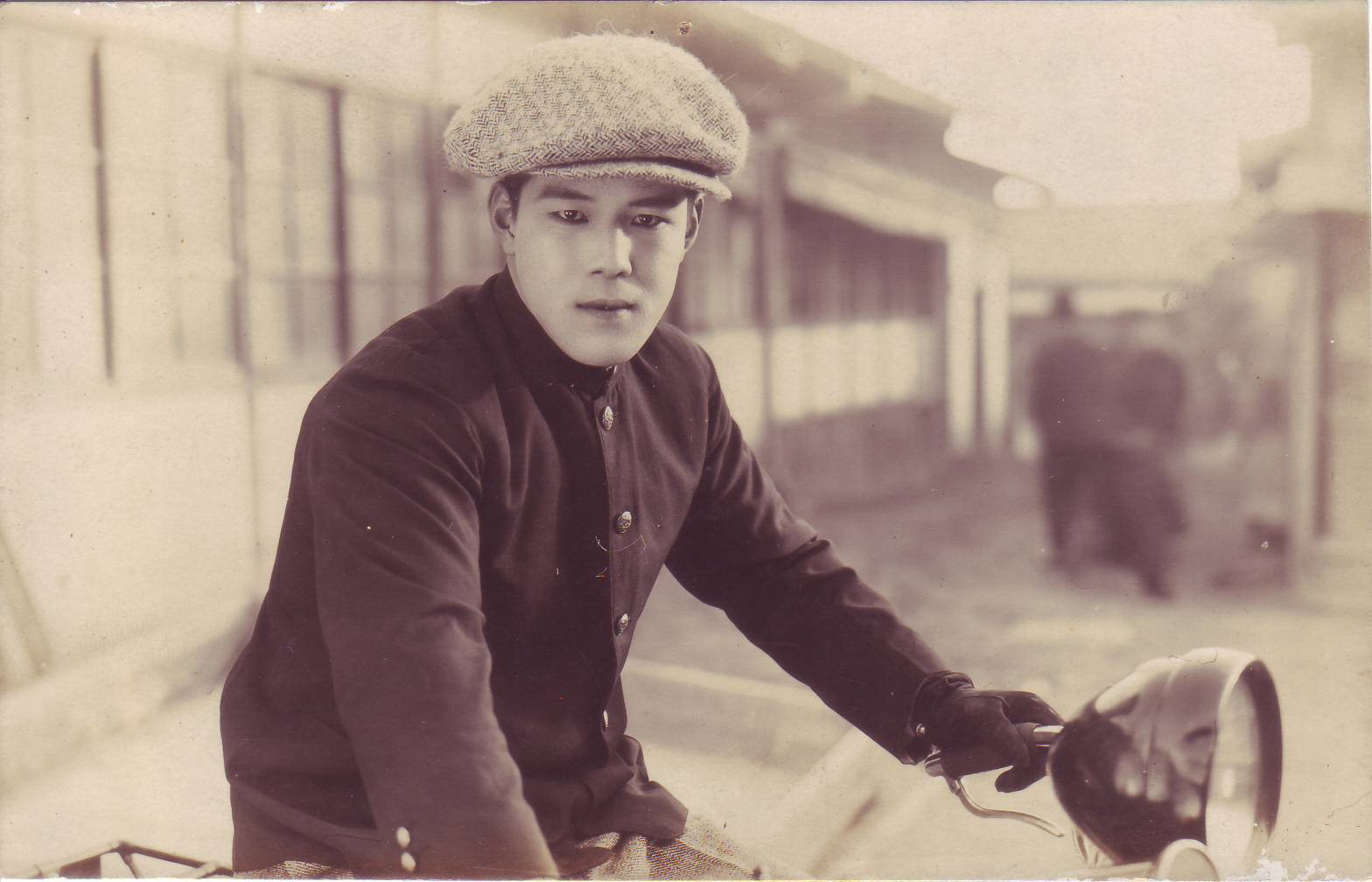 Postcard of Nobuo Asaoka (Actor froma Japan. Member of the House of Councillors, Japan)